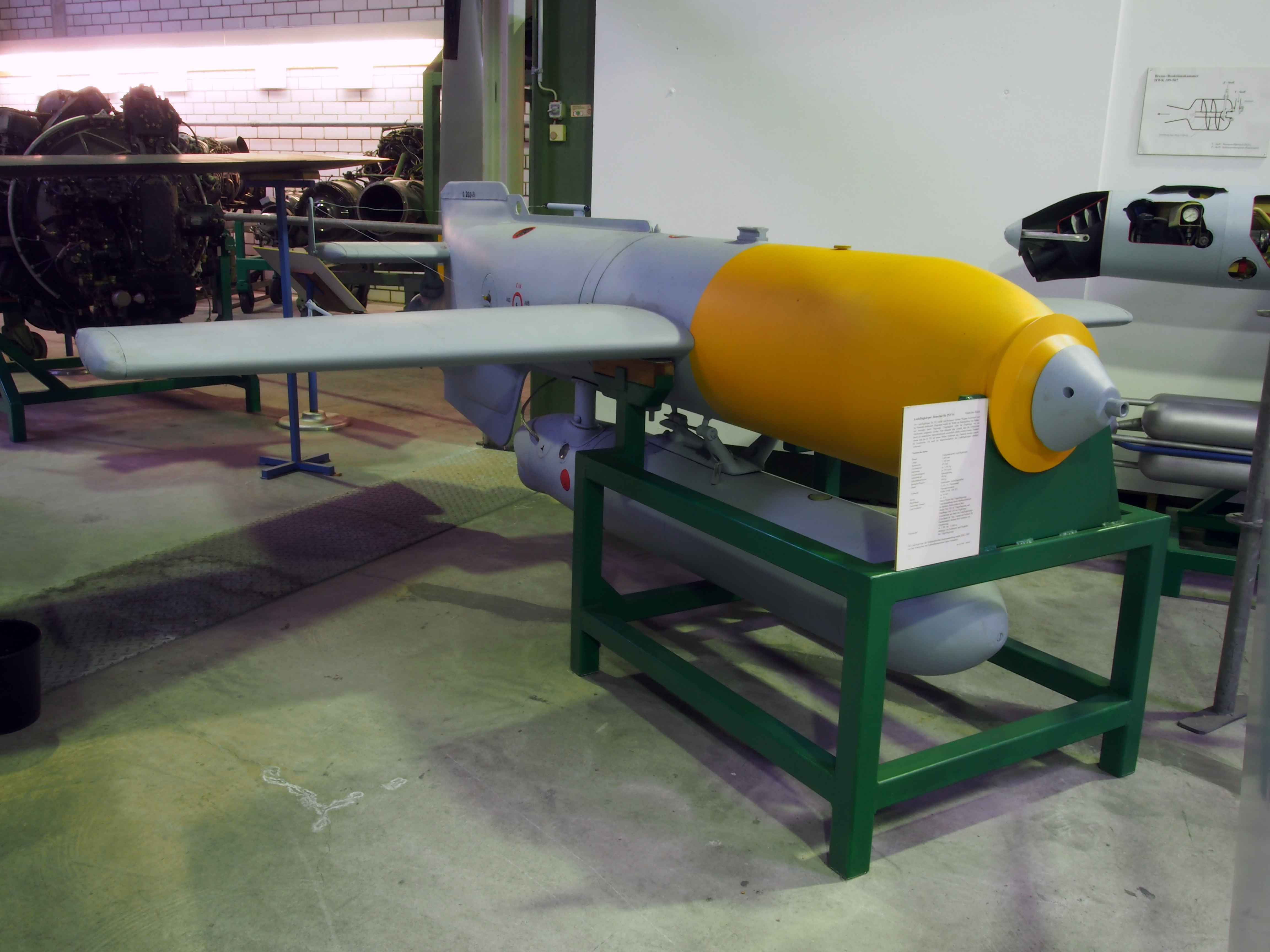 Henschel Hs 293 V4 The warhead is the yellow section. The metal ring around the nose section is commonly found on armor-piercing warheads, it helps the bomb "dig in" to the armour, helping avoid it deflecting off the surface. The rocket engine is the long white/grey cylinder below the bomb.